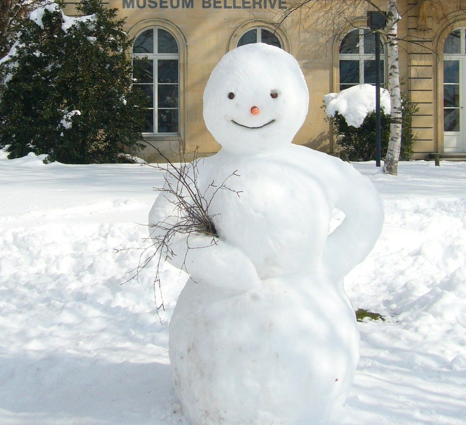 Snowman in front of the Bellerive museum in Zurich, Switzerland.